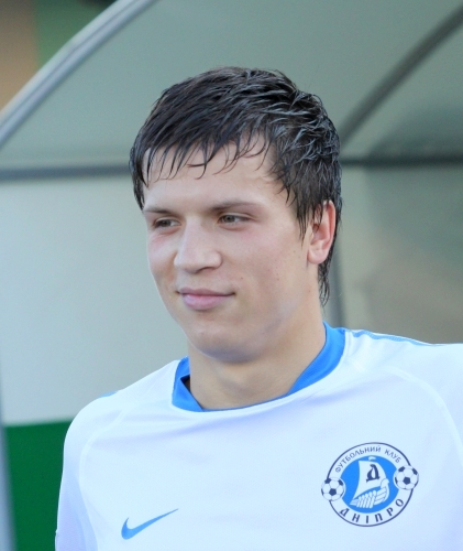 Yevhen Olehovych Konoplianka is a professional Ukrainian football striker.